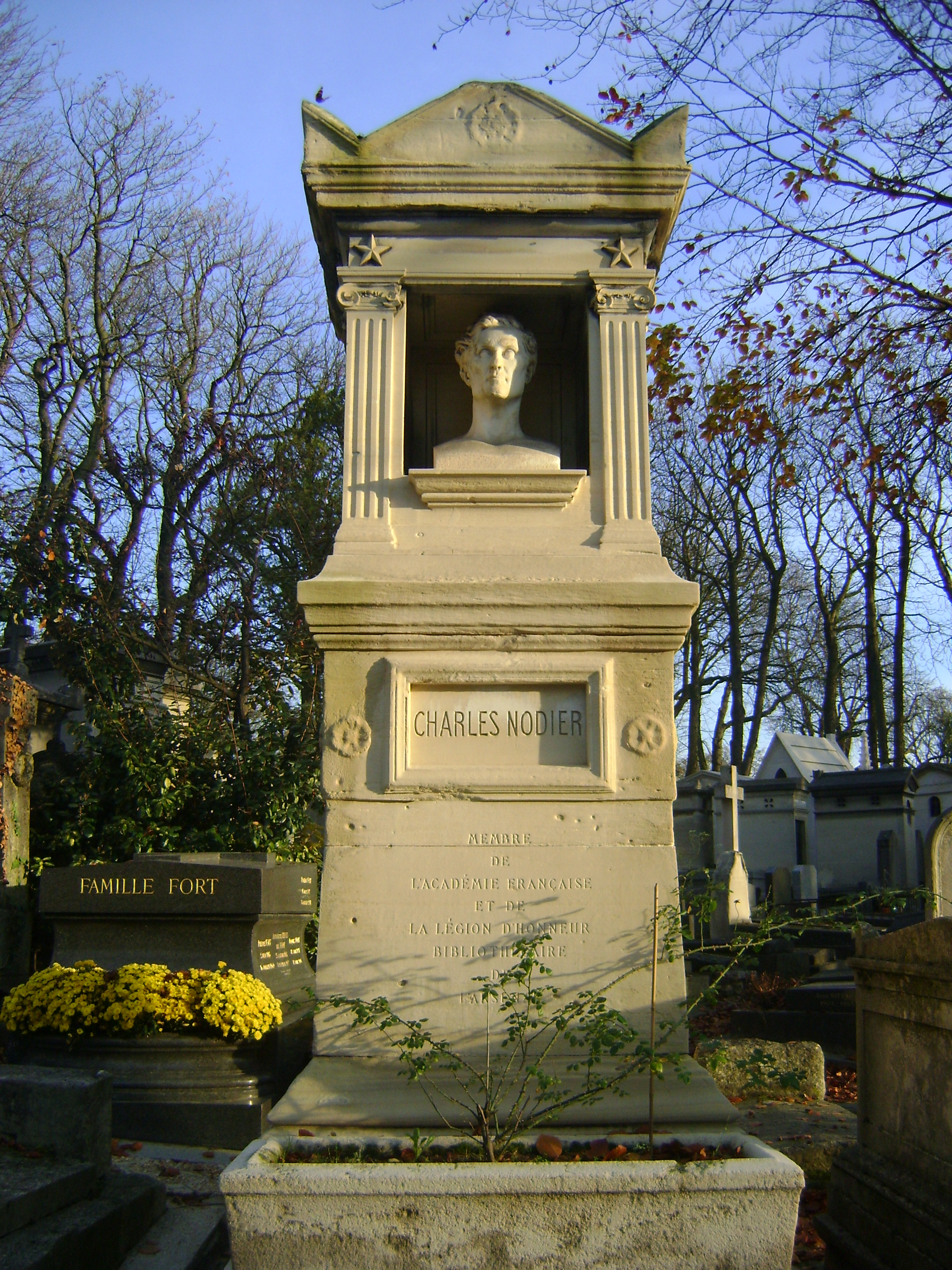 Grave of Charles Nodier, cemetary Père-Lachaise (Paris, France)